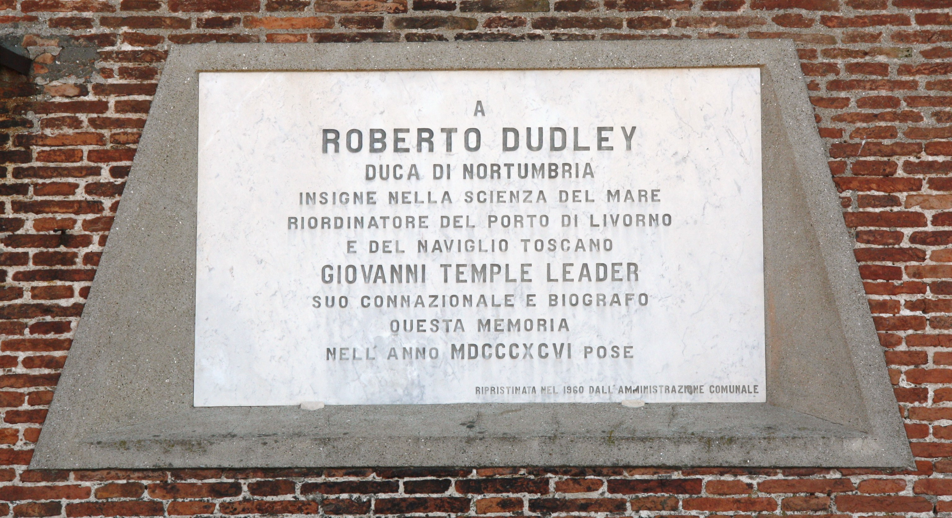 Italy, Livorno, Piazza Micheli. The memorial plaque placed to remember Robert Dudley.